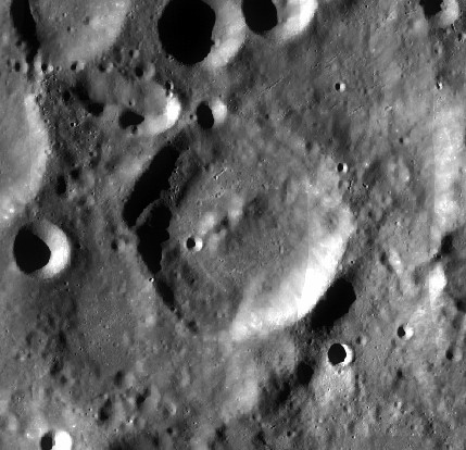 McKellar lunar crater - LRO WAC image